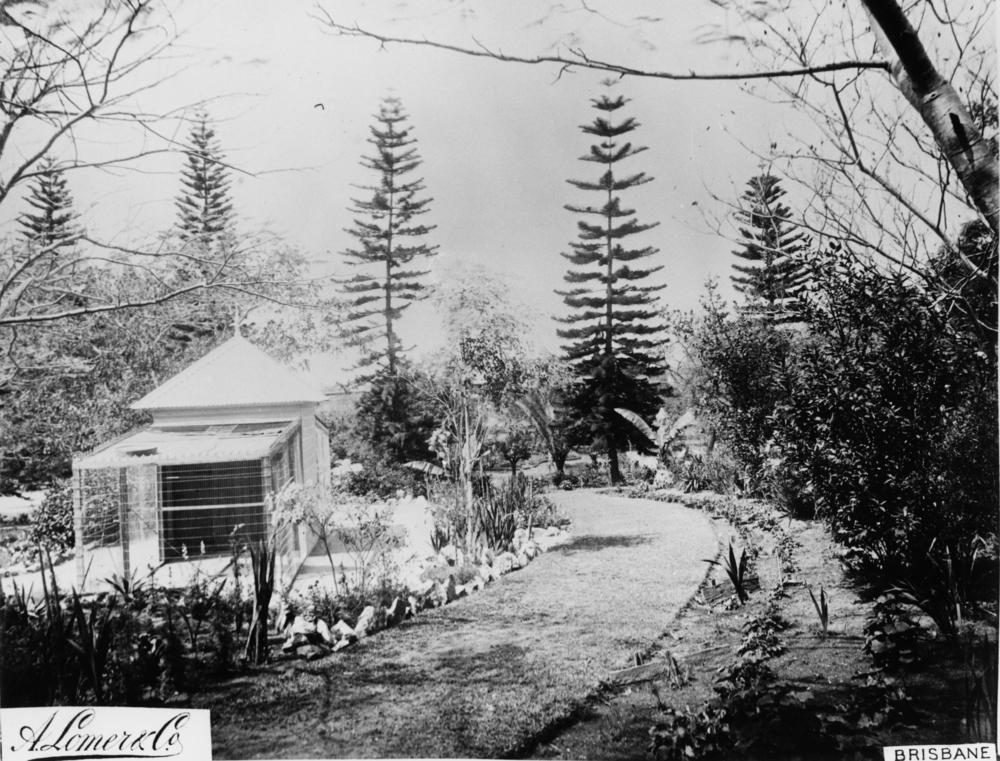 Aviary and Acclimatisation Gardens at Bowen Park, Brisbane, ca. 1889 View of the Acclimatisation Gardens in Bowen Park at Bowen Hills, around 1889. The photograph is taken from the path which runs next to the aviary, visible on the left.